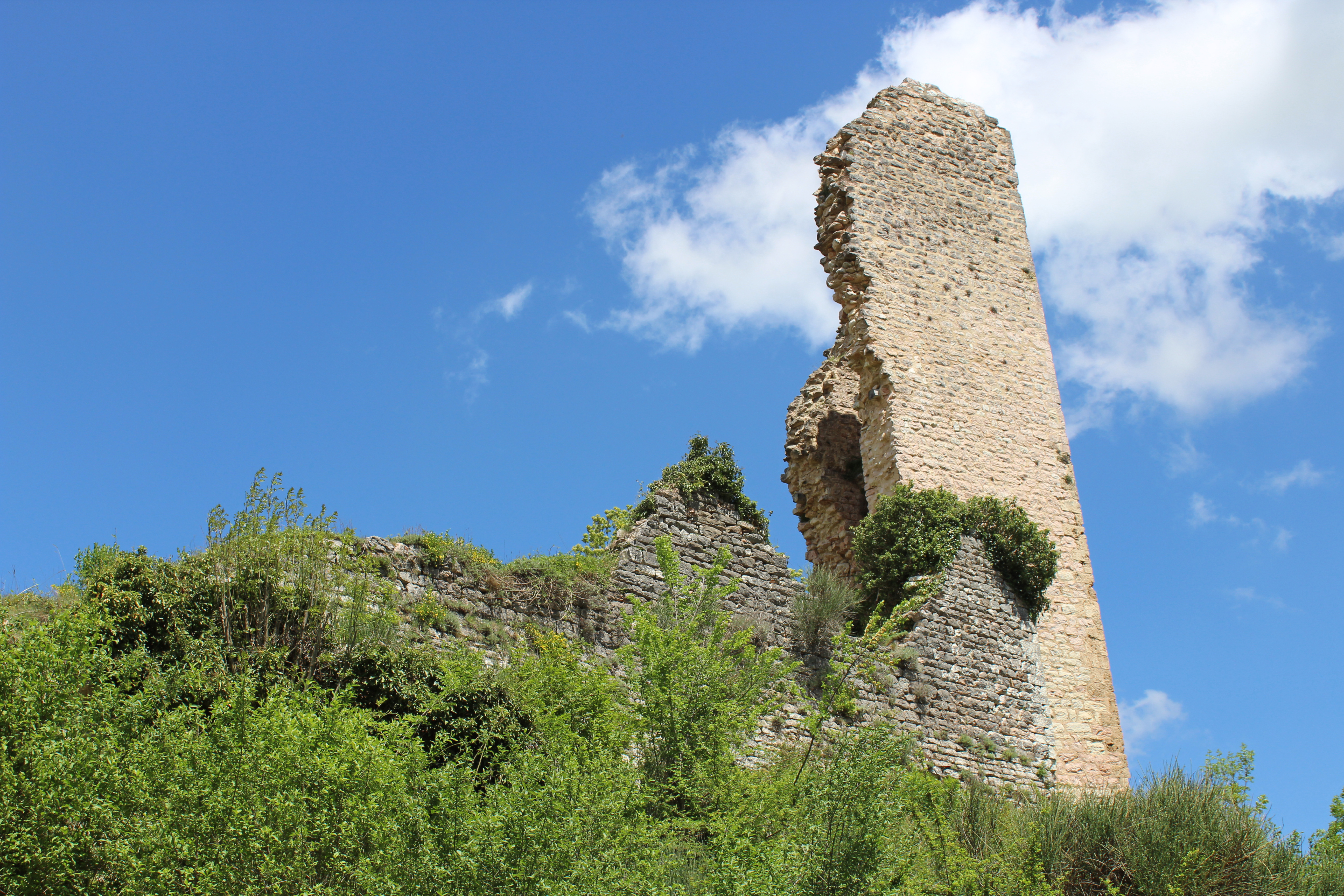 Rests of the tower of the castle of Rasiglia (Foligno, Umbria, Italy)